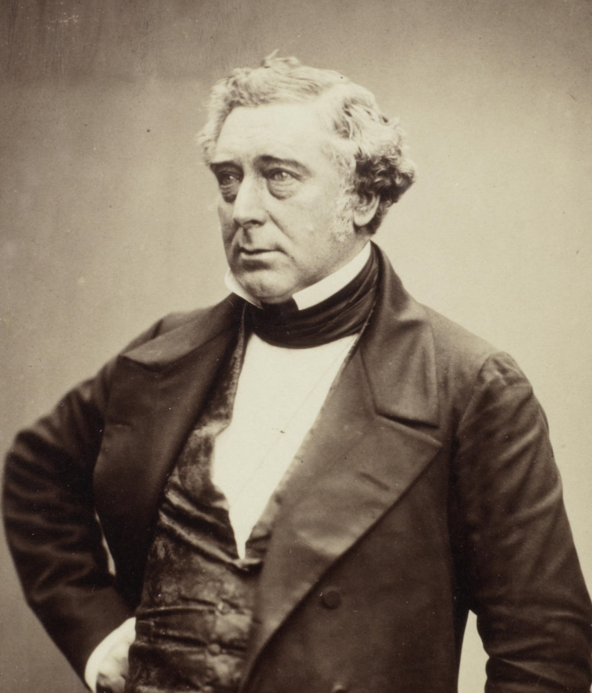 Photograph of Robert Stephenson published in Photographic Portraits of Living Contemporaries, July 1856